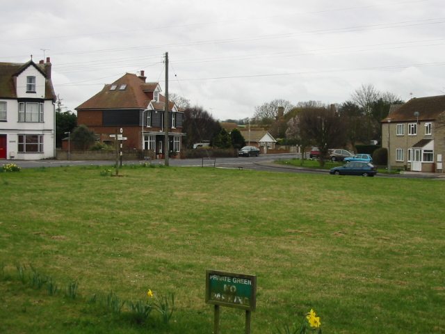 Acol village green The sign says 'private green' so perhaps it belongs to the houses around it?